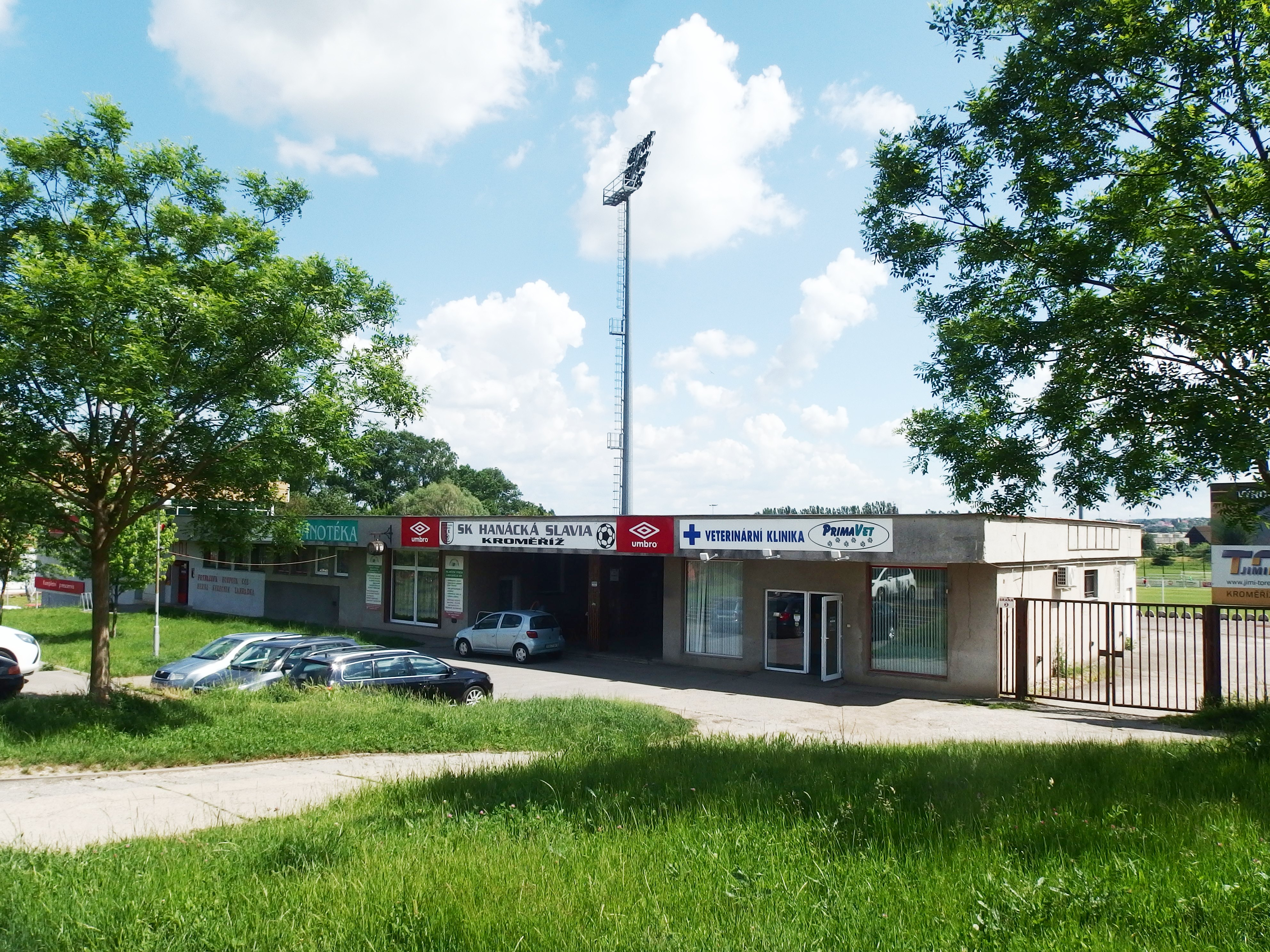 Kroměříž, Czech Republic. Obvodová street.